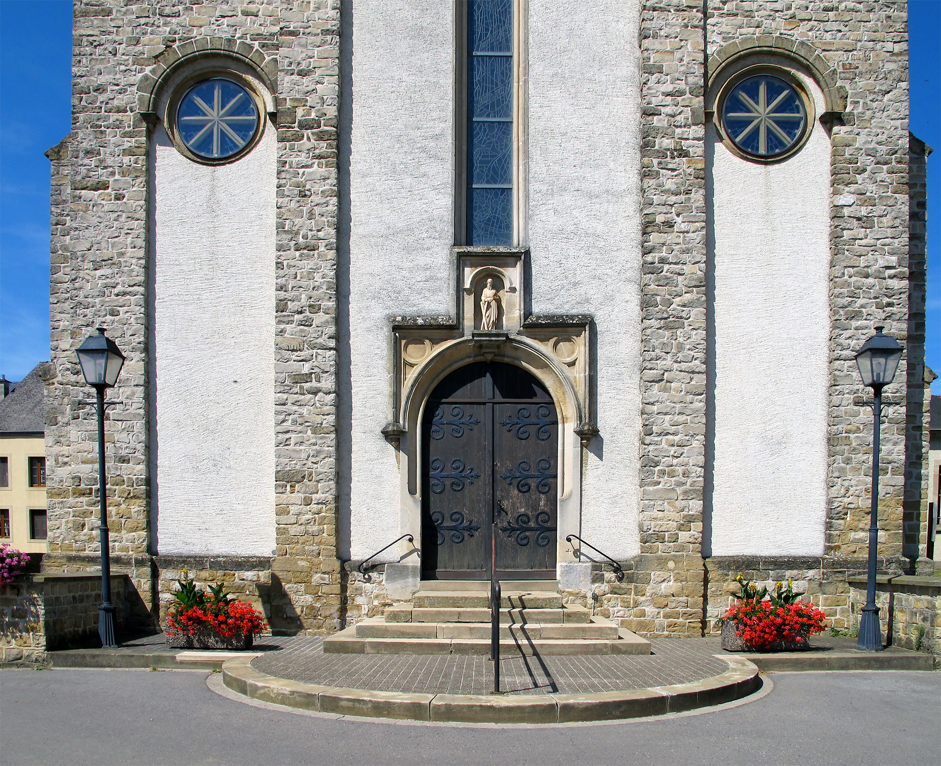 Church of Aspelt, Luxembourg